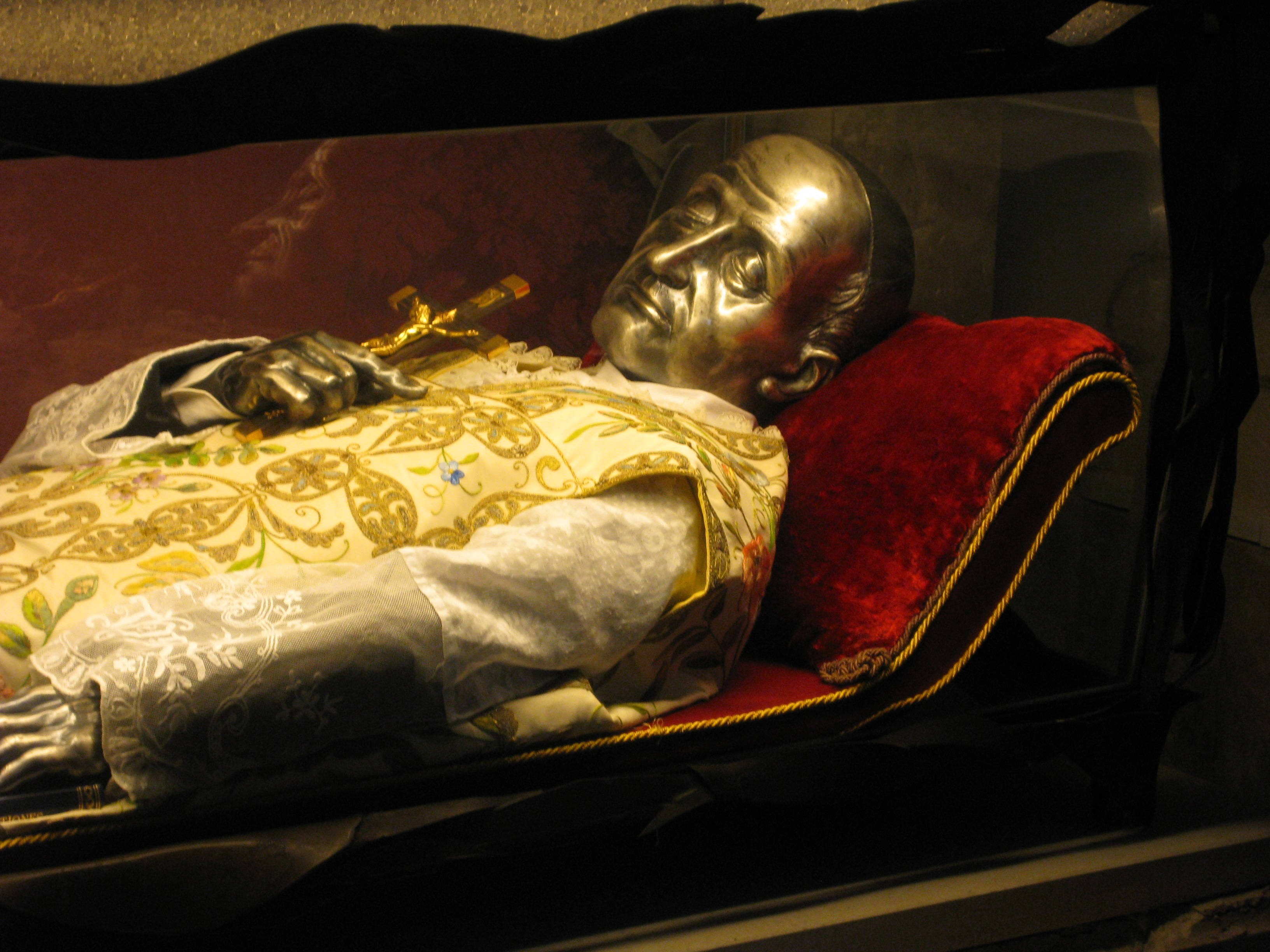 Saint Gaspar Bertoni, in the Church of Stigmates in Verona